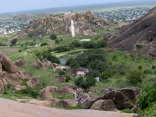 View from Hills near Adoni, Kurnool district